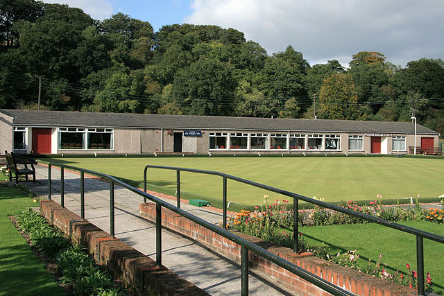 Lugar Bowling Club Viewed from the main A70 road through the village. A small portion of the ground at the southwest corner is in the adjoining square.